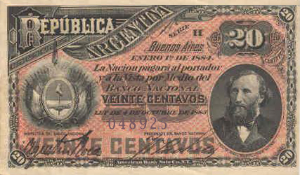 20 Argentine centavo note